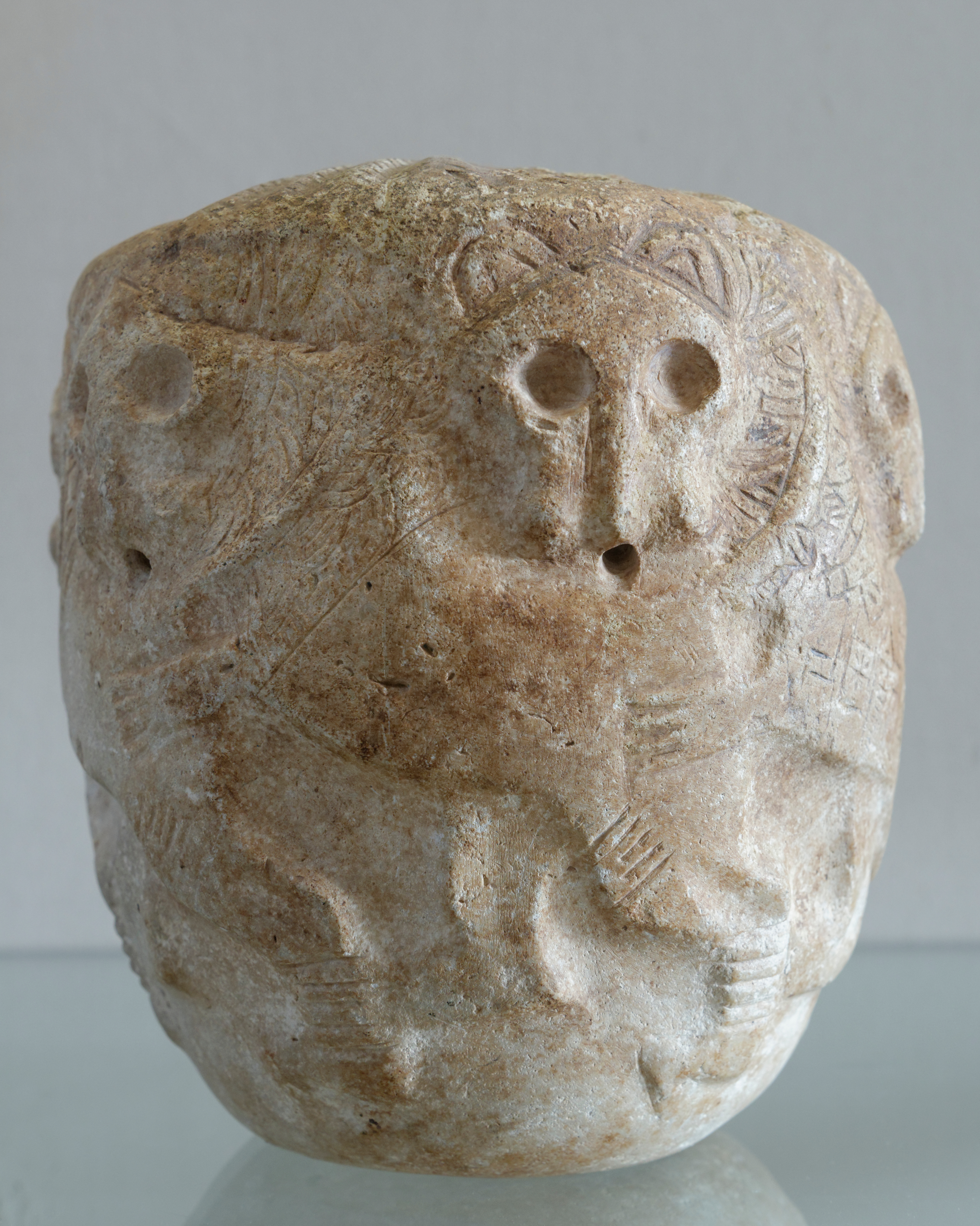 Head of a votive mace with a lion-headed eagle (emblem of god Ningirsu) and six lions, dedicated at a shrine in Girsu by King Mesilim of Kish. Inscription in archaic script: “Mesilim, king of Kish, builder of the temple of Ningirsu, brought [this mace head] for Ningirsu, Lugalshaengur [being] prince of Lagash” (P. Pouysségur).